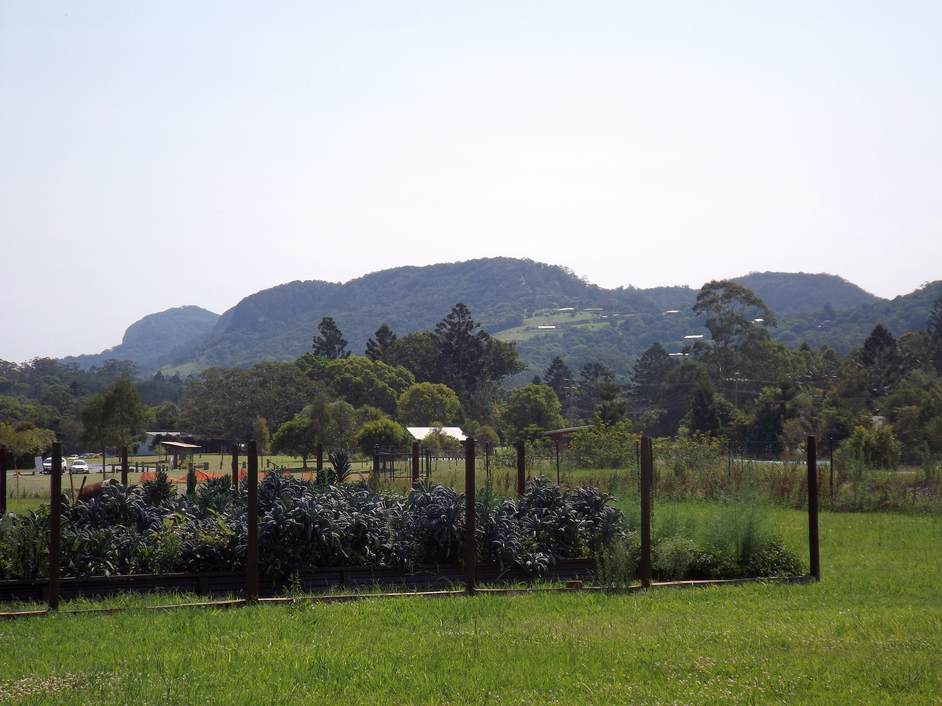 Photo of Tallebudgera Mountain from the Currumbin Ecovillage at Currumbin Waters, Gold Coast City, Queensland, Australia. A vegetable garden can be seen in the foreground.